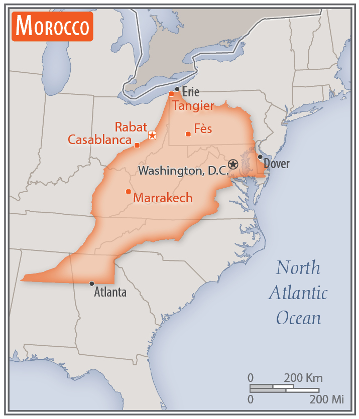 Comparison of the areas of two country. The area of Morocco with biggest cities (red) overlay the area of the United States of America (gray background).